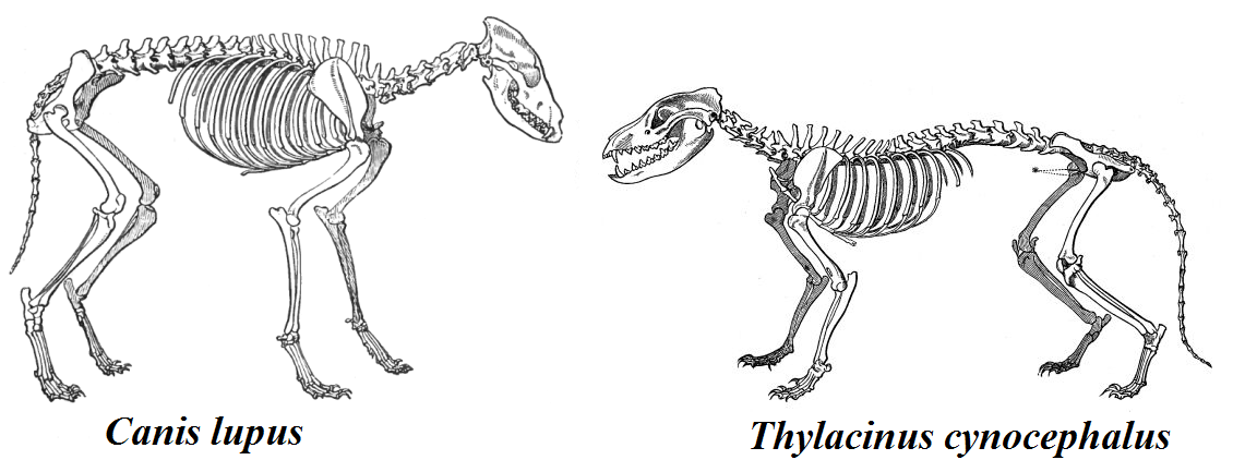 Skeletons of grey wolf and thylacine.